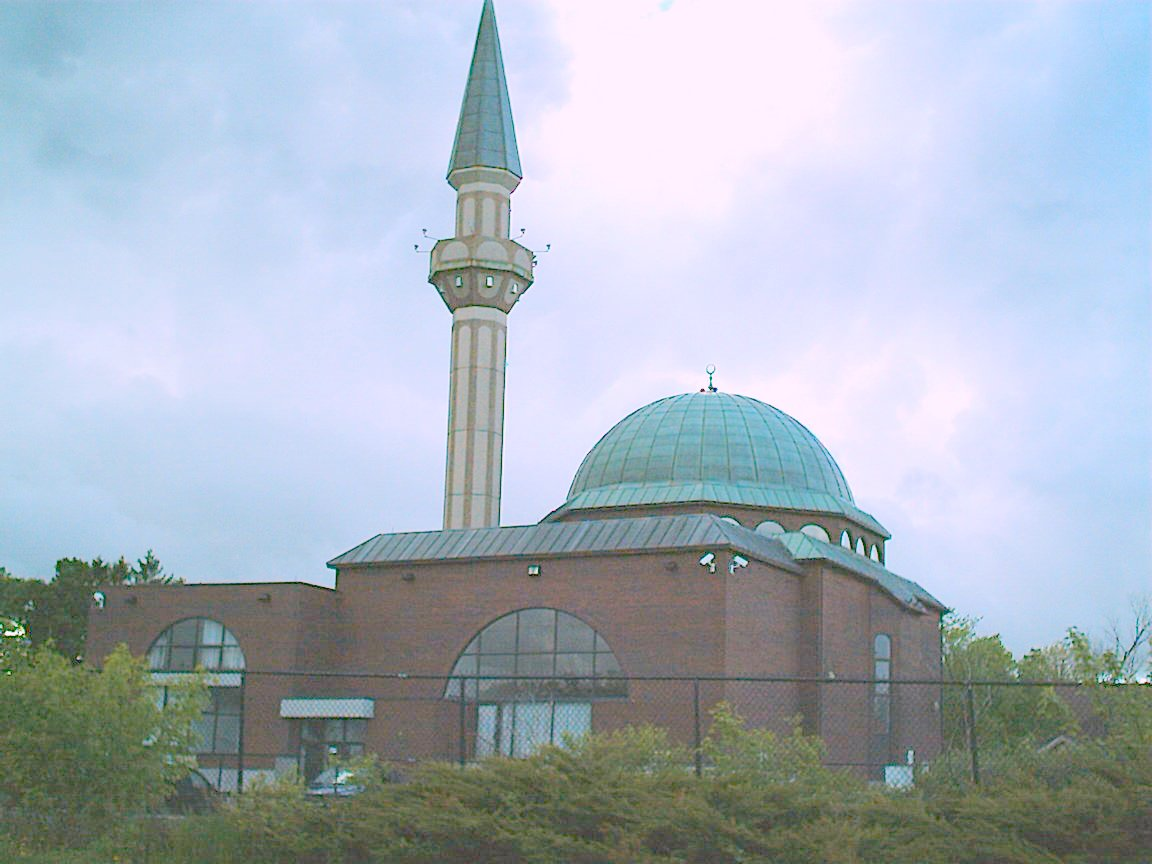 Ottawa Mosque (Ottawa Muslim Association), in Centre Town West, Ottawa, Ontario, Canada